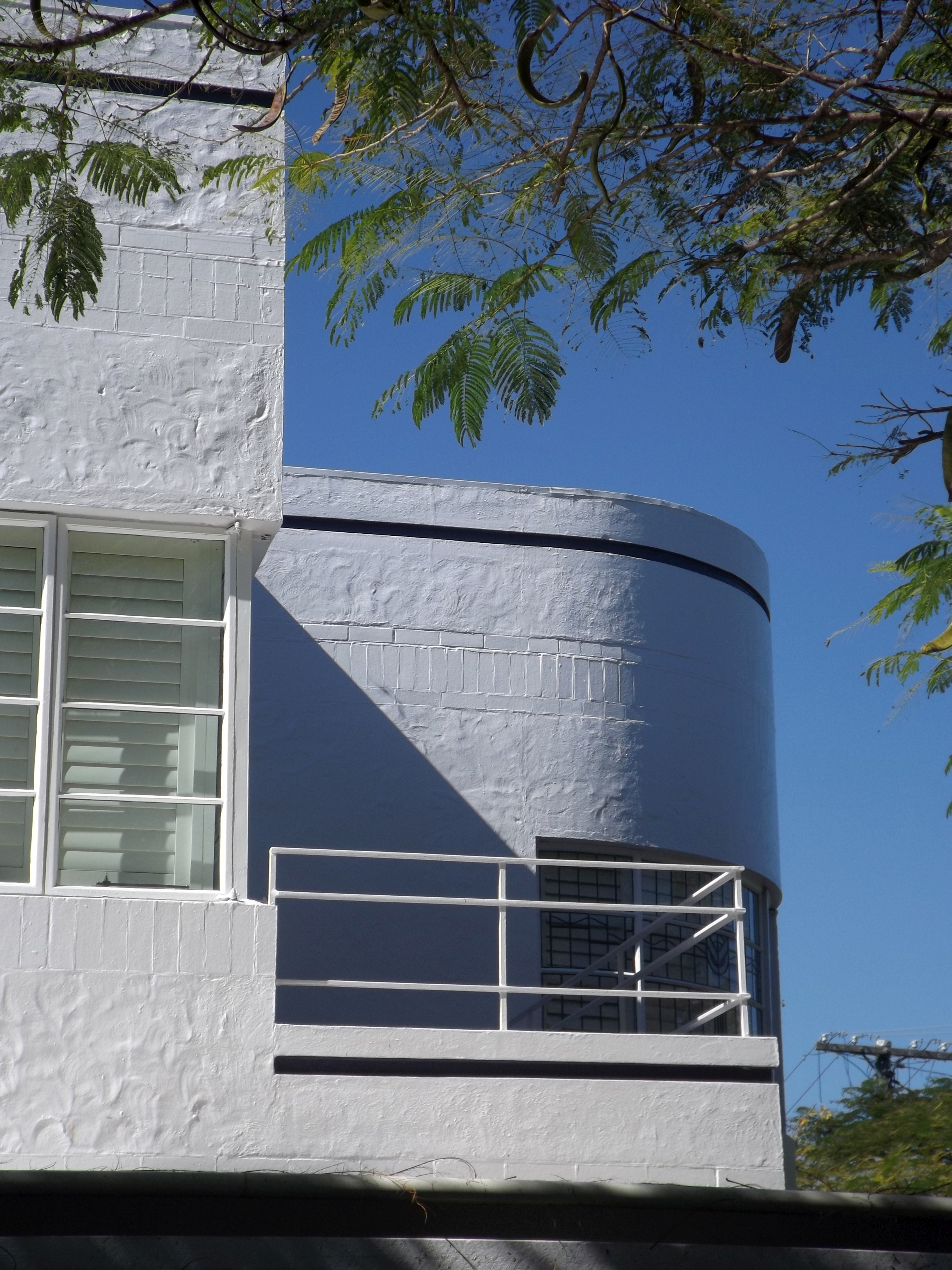 Photo of the upper level of Chateau Nous at Ascot, Brisbane, Queensland, Australia.